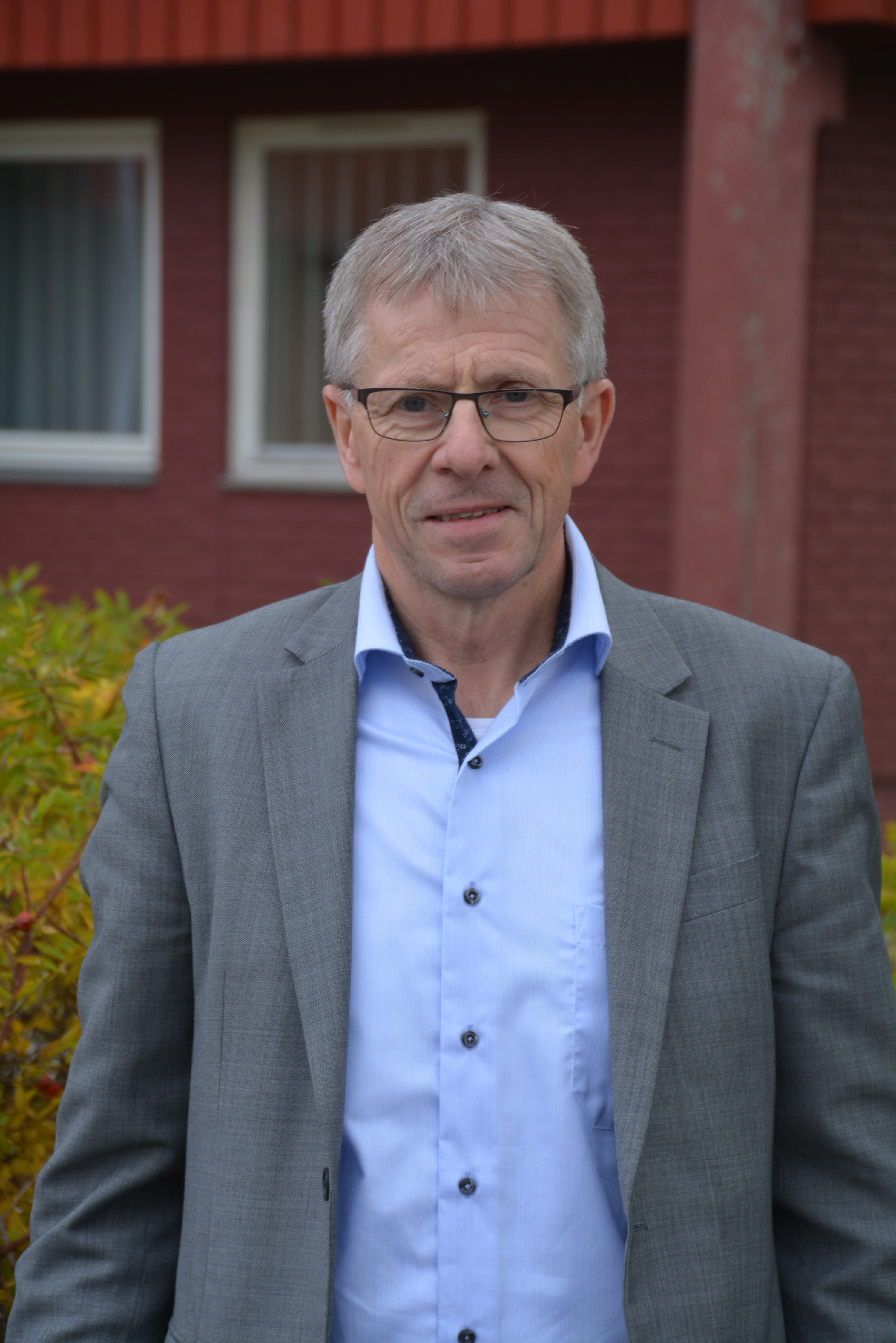 Mayor of Leksvik, Norway: Steinar Saghaug